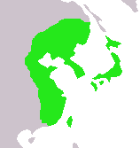 Eophana personata distribution map